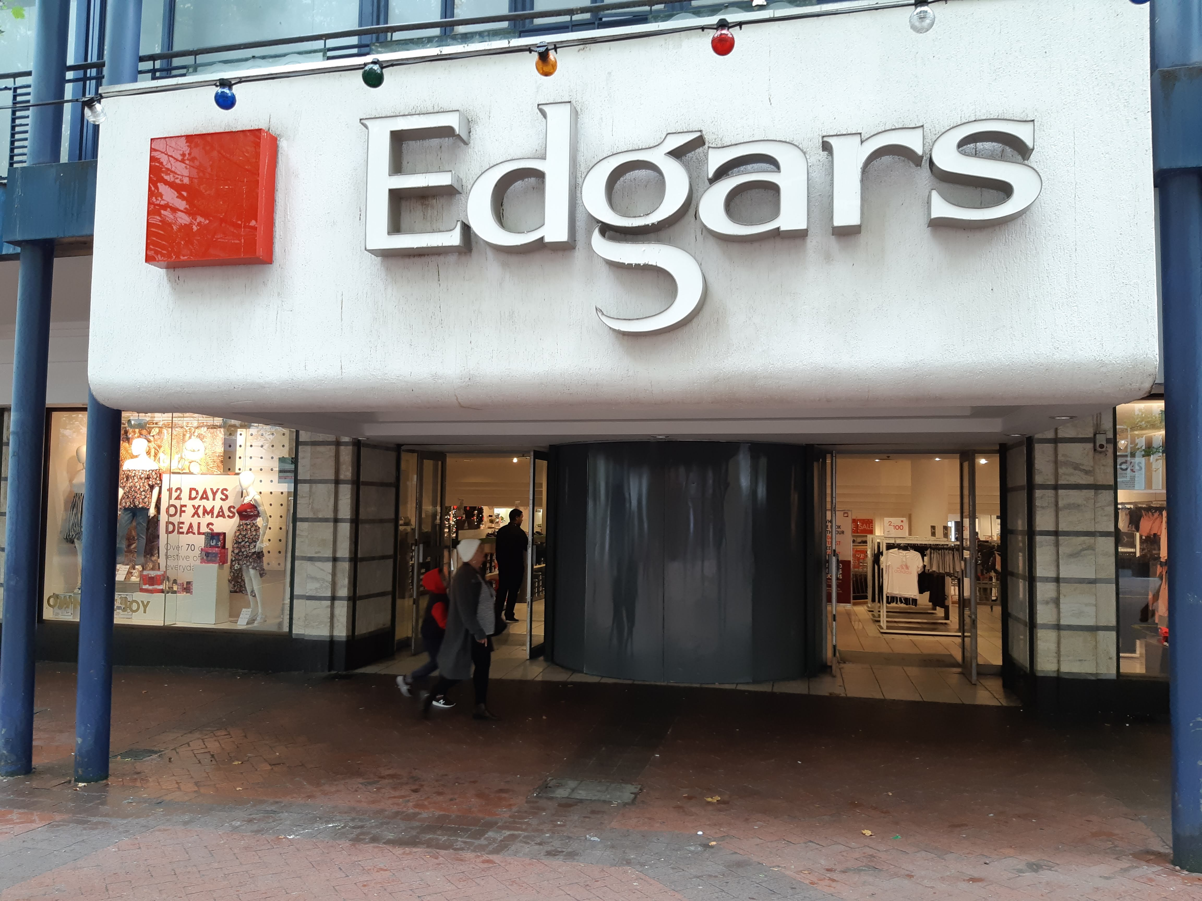 An Edgars department store on on St George's Mall, Cape Town.